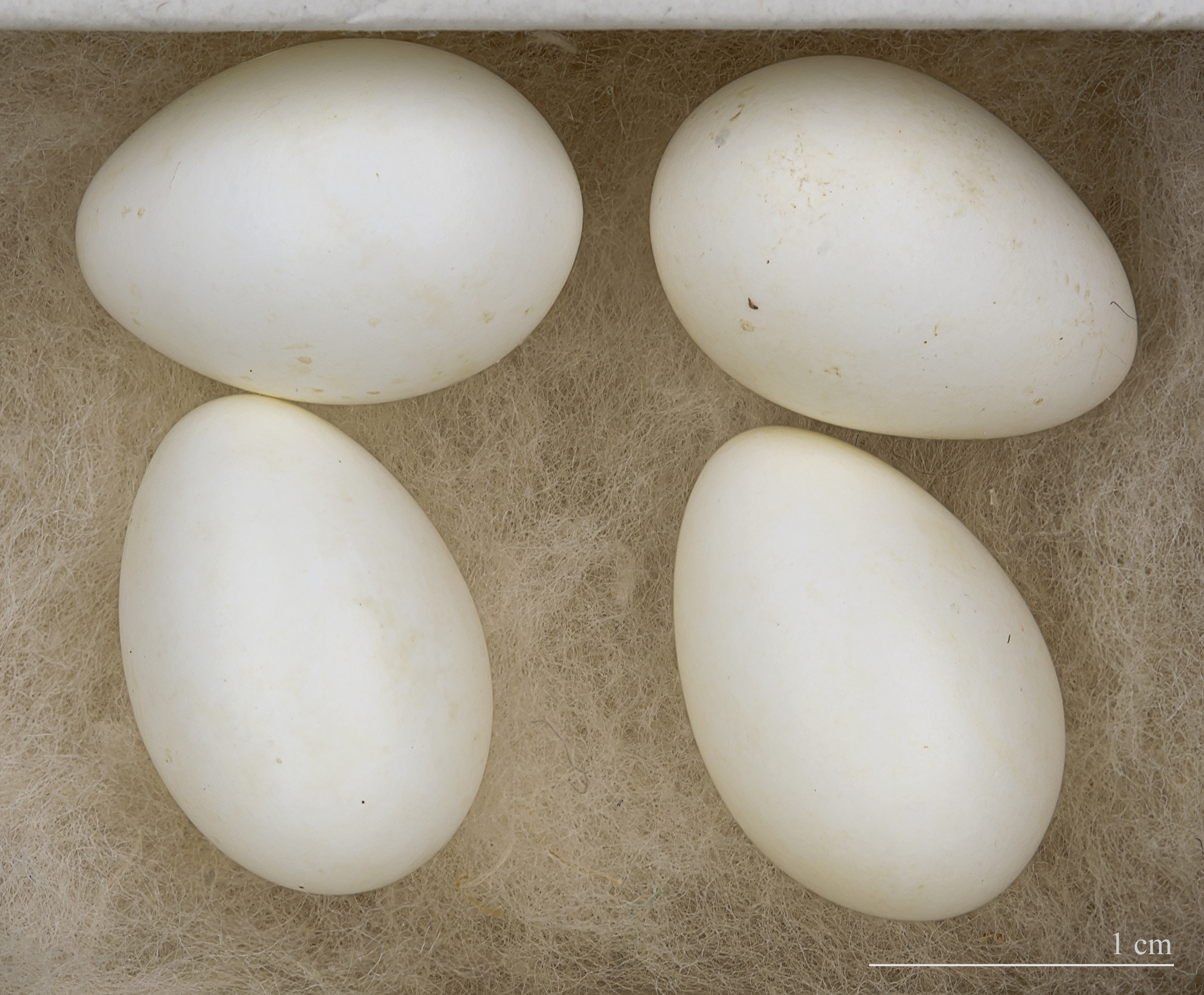 Egg of Sand Martin. Collection of Jacques Perrin de Brichambaut.